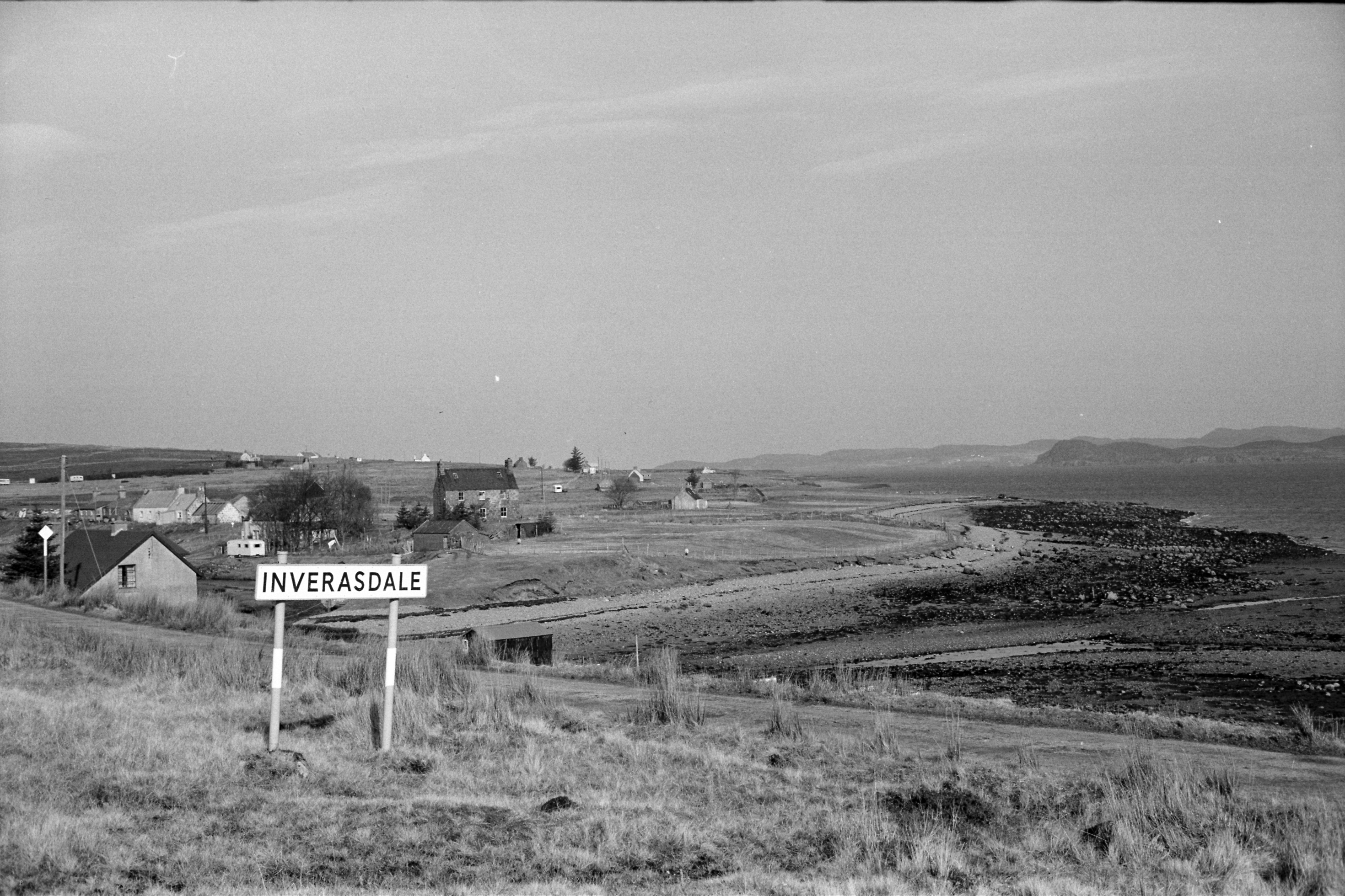 A photo taken by Charles Robert Whitton in 1974